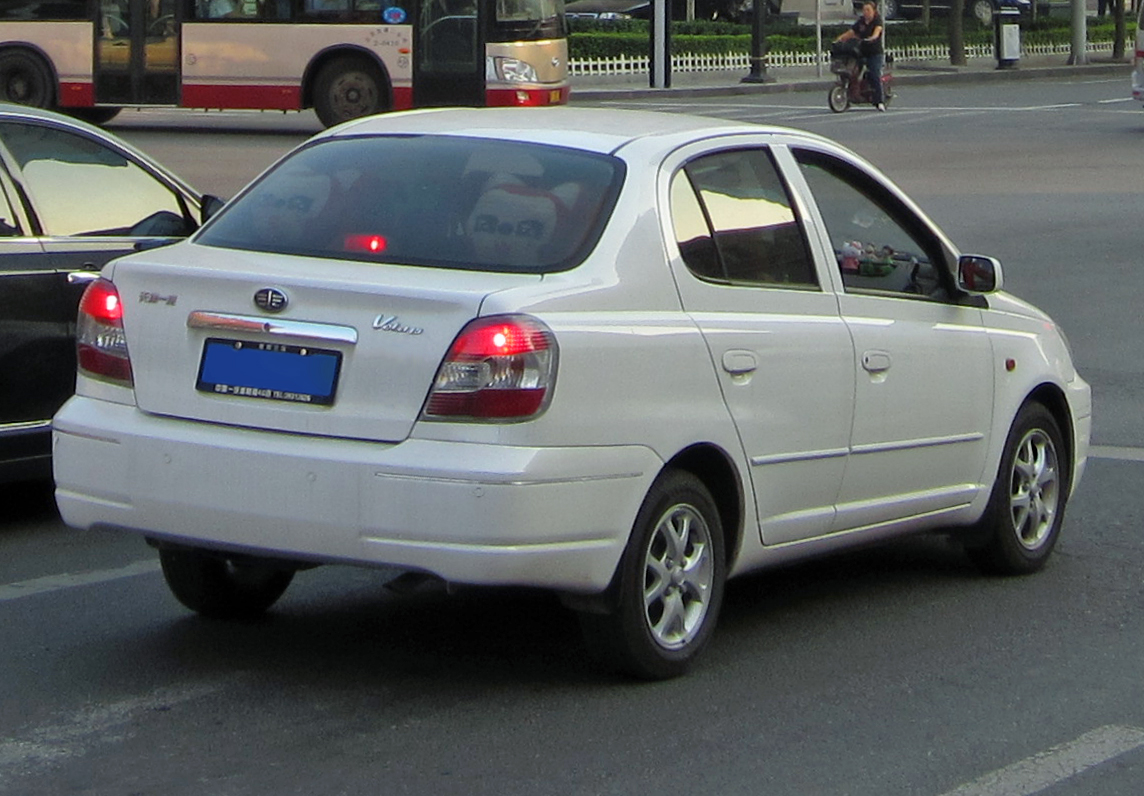 An FAW Tianjin Vela (Chinese-built Toyota Platz) 1.5